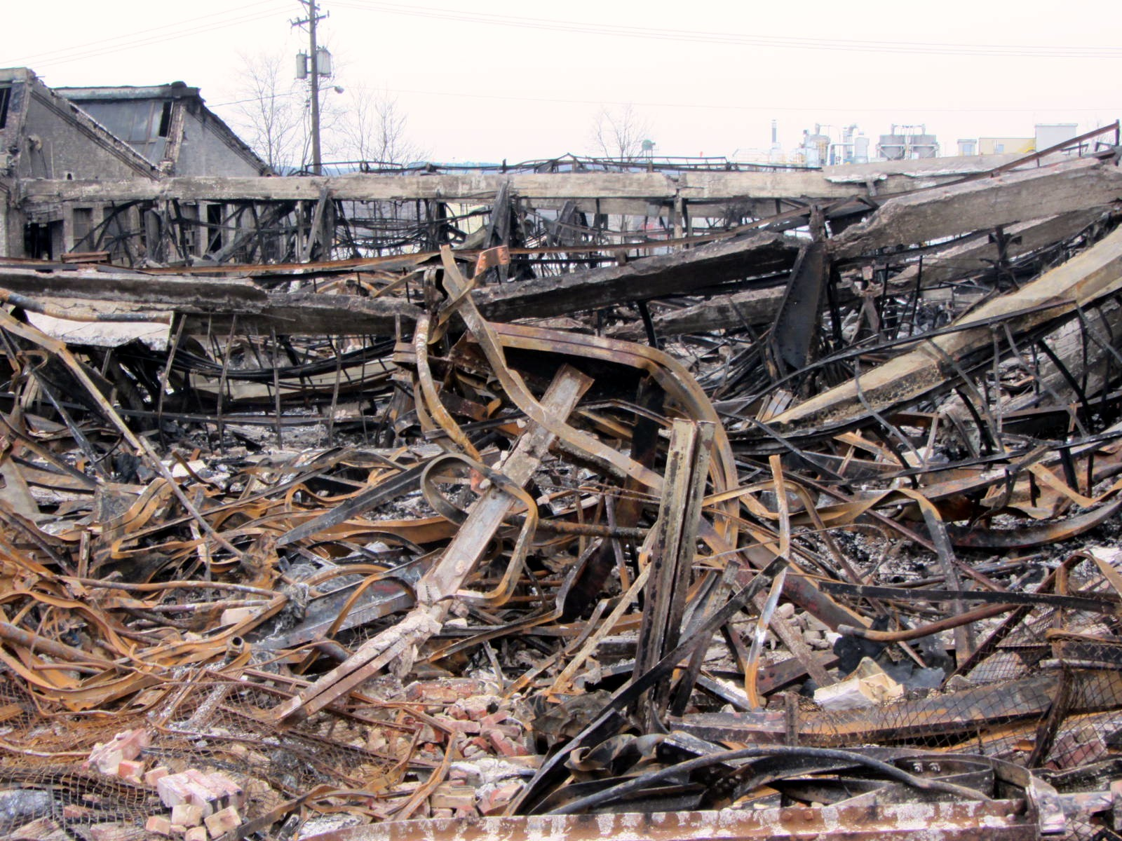 The smoldering remains of the New Years Eve Westclox factory fire.